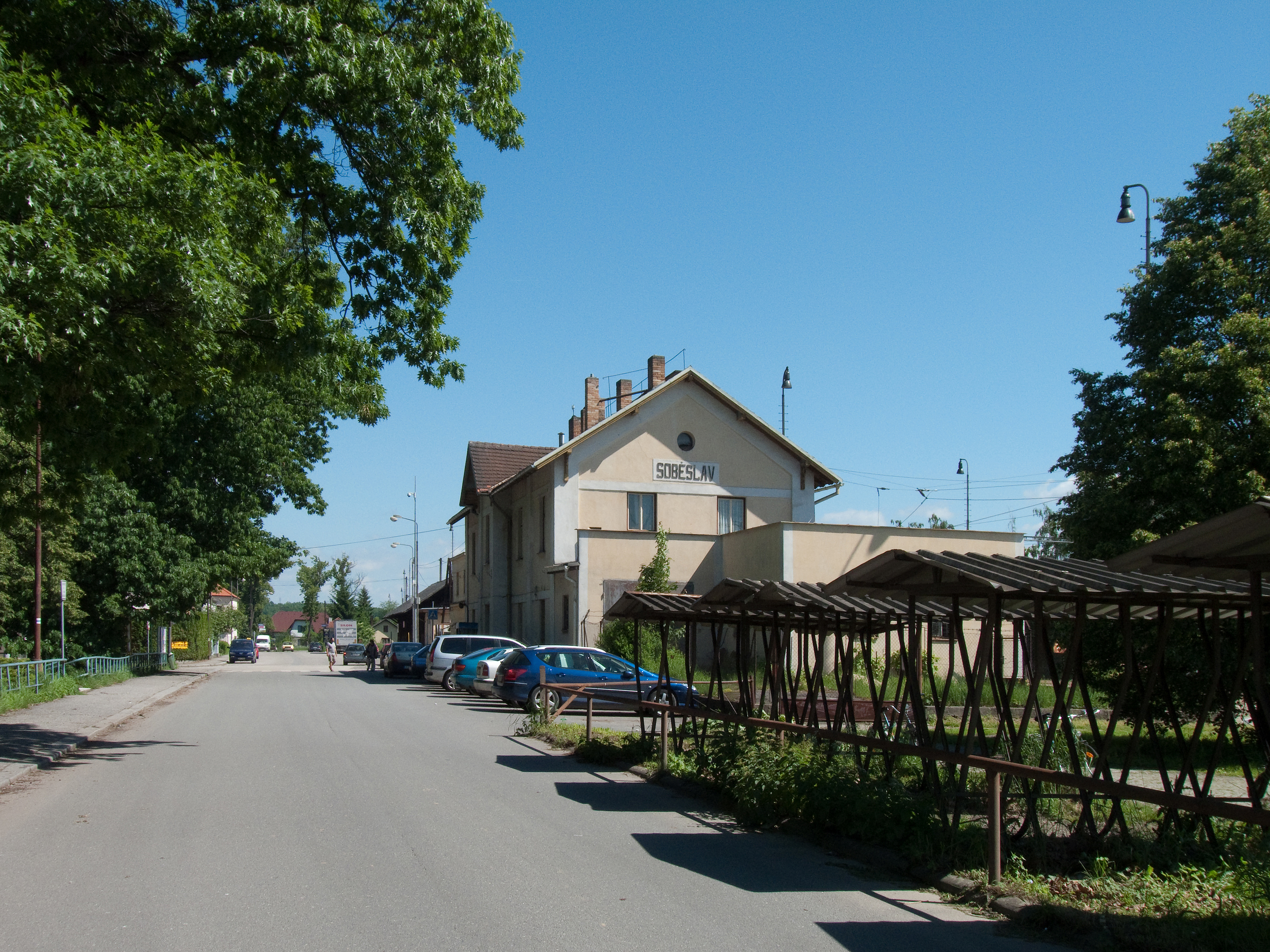 Railway station building in Soběslav, Tábor district, Czech Republic